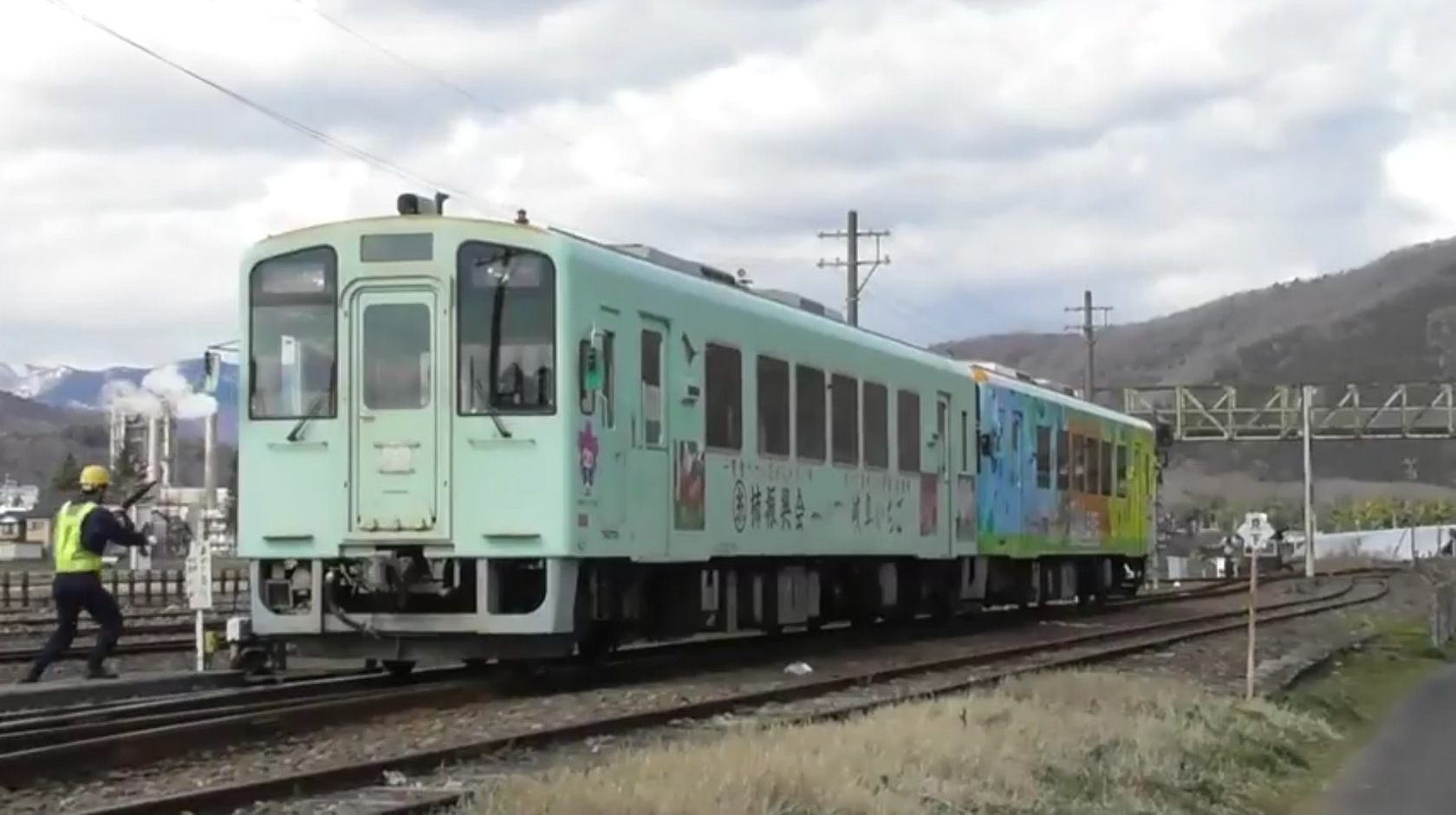 Two Haimo 330 diesel cars on a test run at Motosu Station